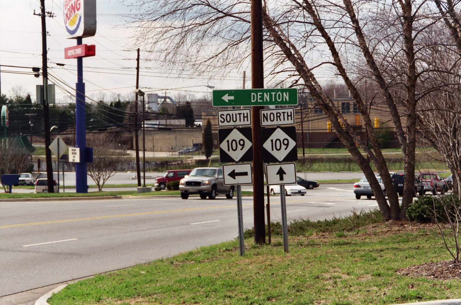 Picture of NC 109 direction signs, at the end of NC 62 in Thomasville, North Carolina.